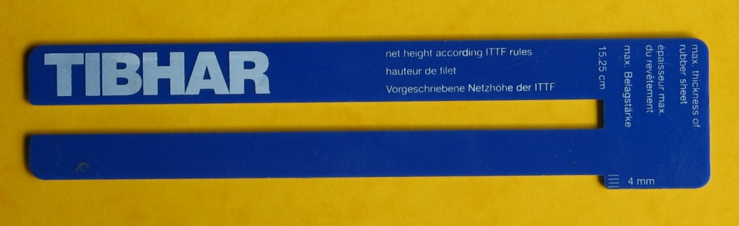 Device for controlling the height of the table tennis net